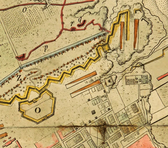 A Sketch of the Operations Before Charlestown the Capital of South Carolina, Joseph F. W. Des Barres, 1780.